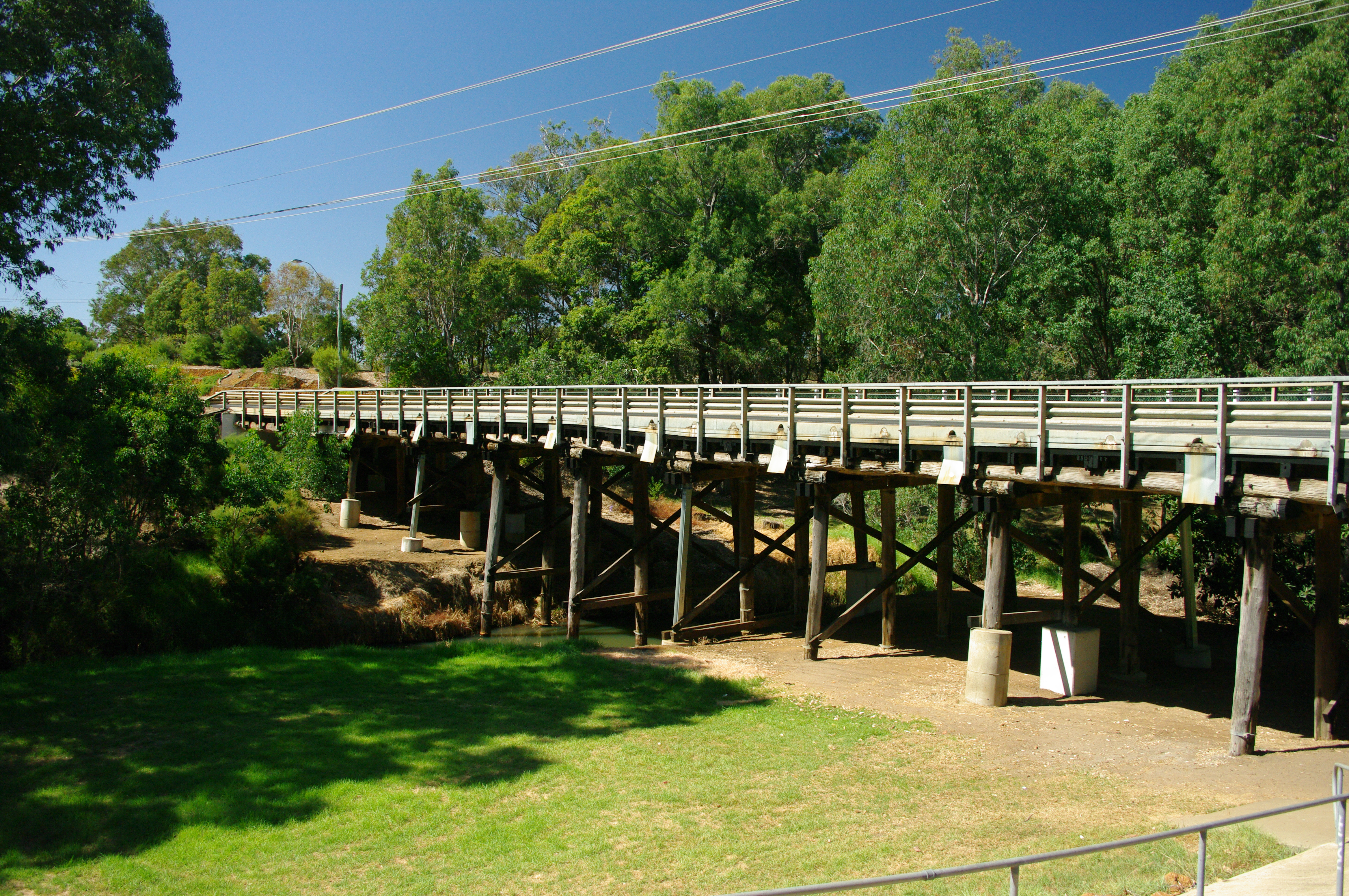 Capel Drive(formly Bussel Hwy) crossing the Capel river in Capel Western Australia